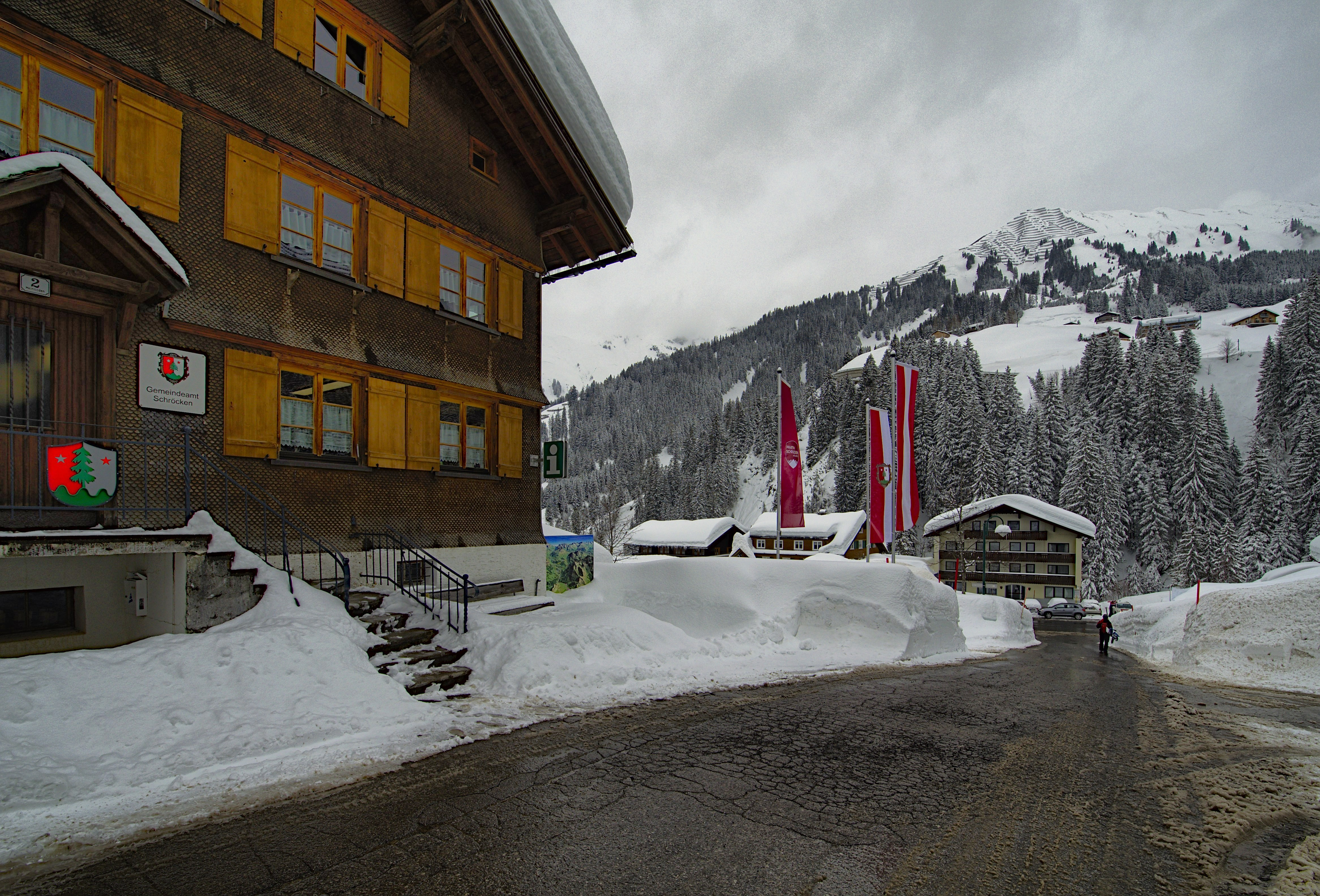 Schröcken. Left parish hall; background Höferspitze (2131m)